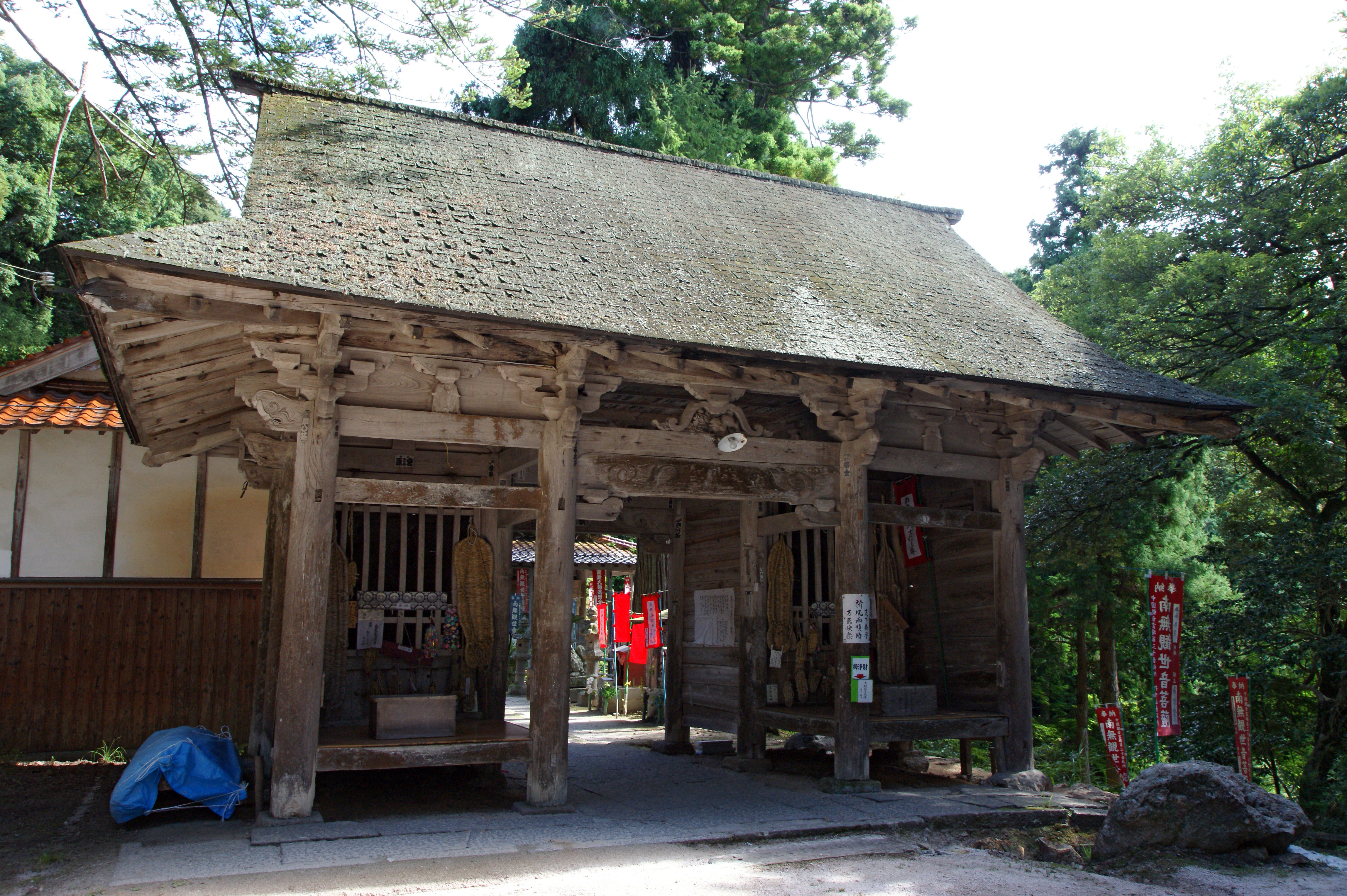 Hasedera in Kurayoshi, Tottori prefecture, Japan